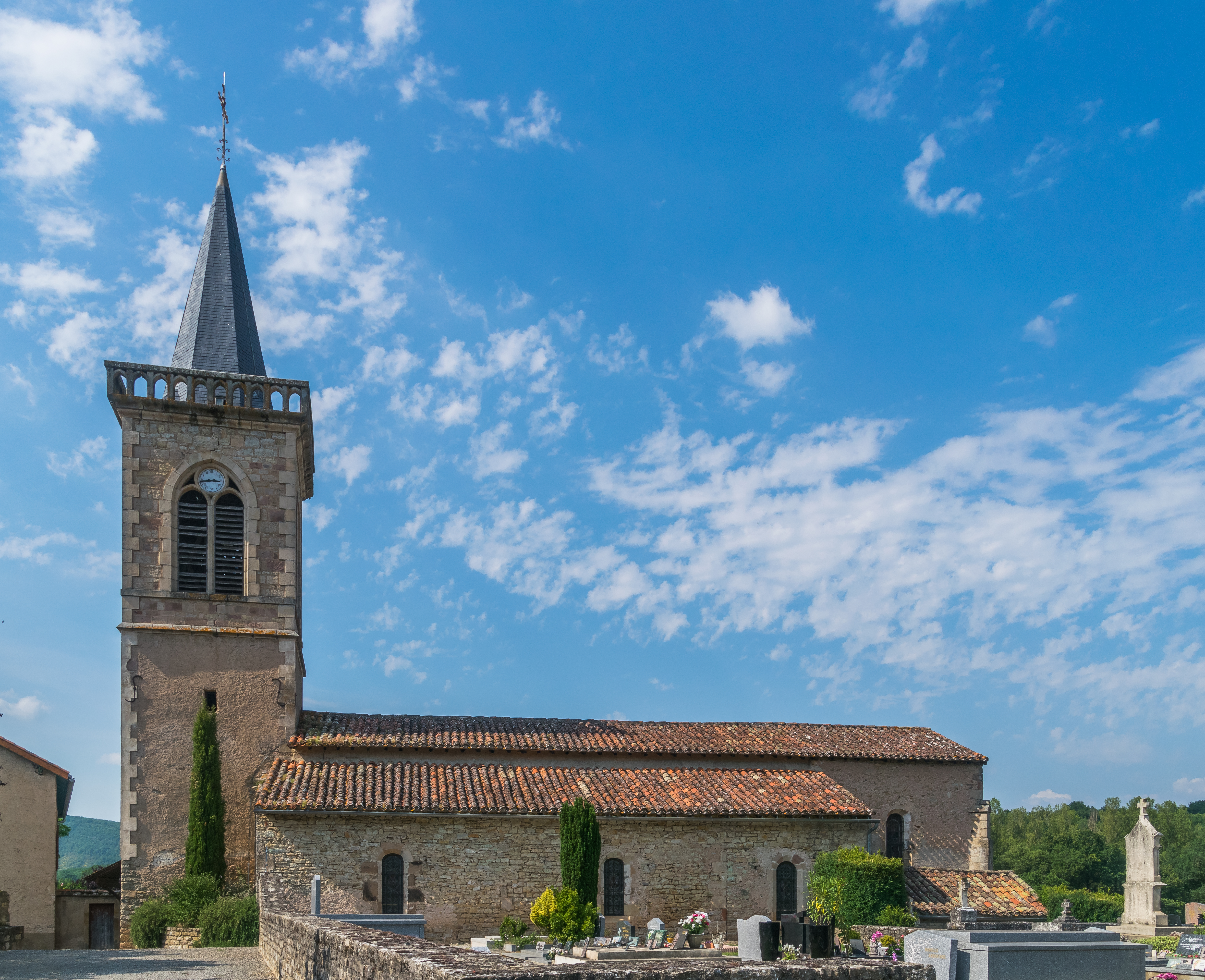 Saint-Pierre-ès-Liens Church in Milhars, Tarn, France